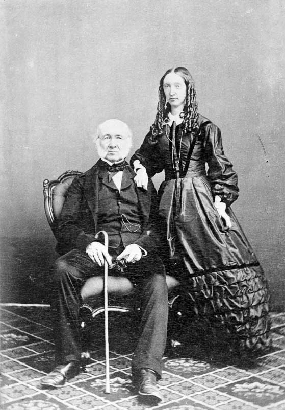 John Alexander Gilfillan and woman [presumed to be his daughter], Melbourne, c.1856, copy from original photo print, Ministry for Culture and Heritage